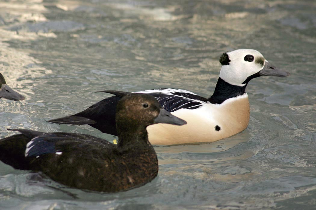 Threatened Steller's eider (Polysticta stelleri) female and male, Alaska SeaLife Center, Seward, Alaska